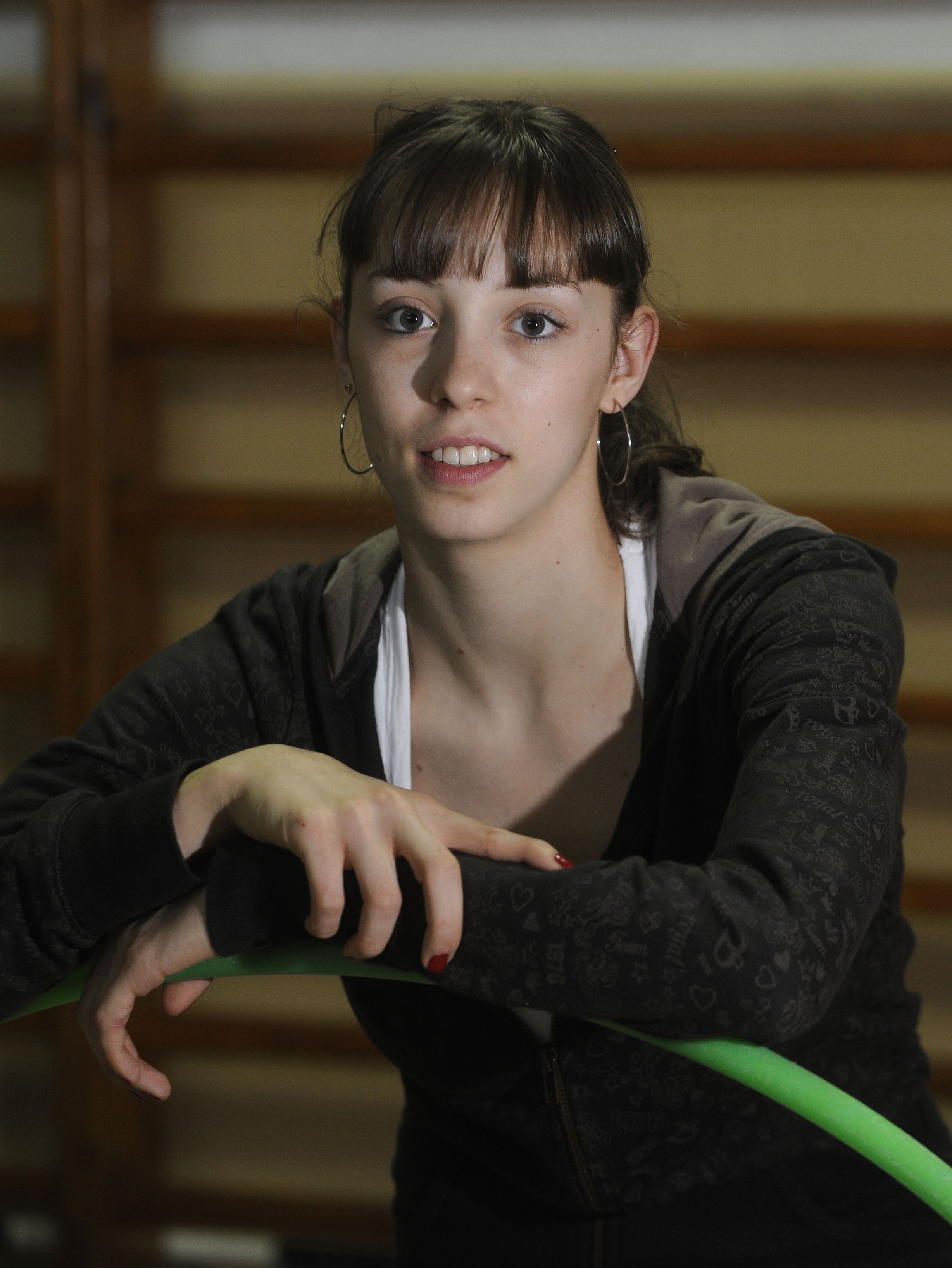 ANA MARIA PELAZ, GIMNASTA DE RITMICA, DEL EQUIPO OLIMPICO ESPAÑOLFOTO MIGUEL ANGEL SANTOS